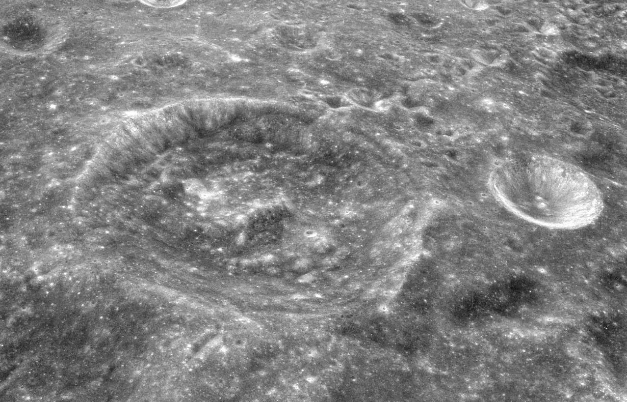 Oblique view of Brunner (left) and Brunner N (right) craters, on the far side of the moon, facing east.